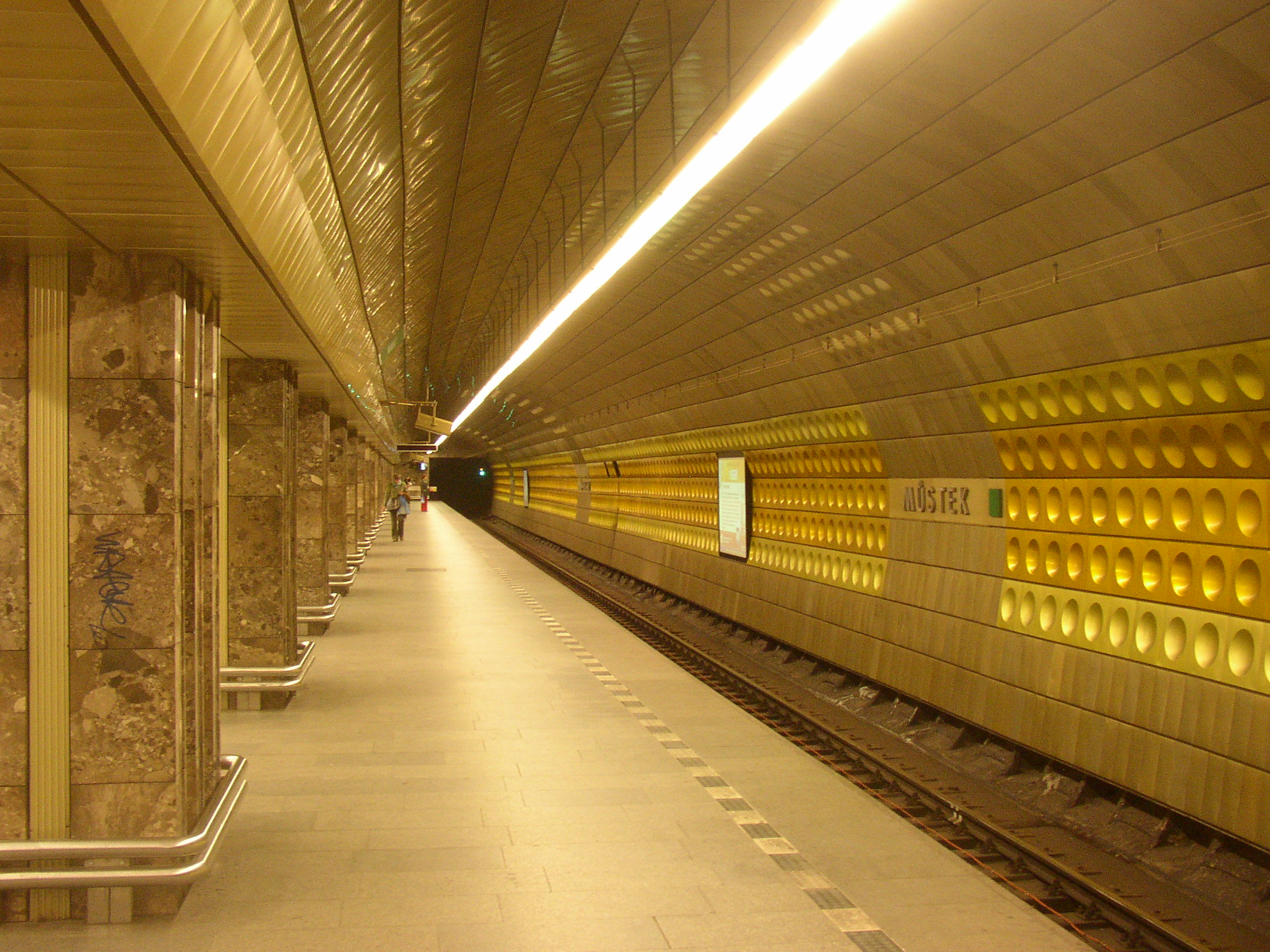 Metro in Prague, Czech Republic; Můstek station, line A